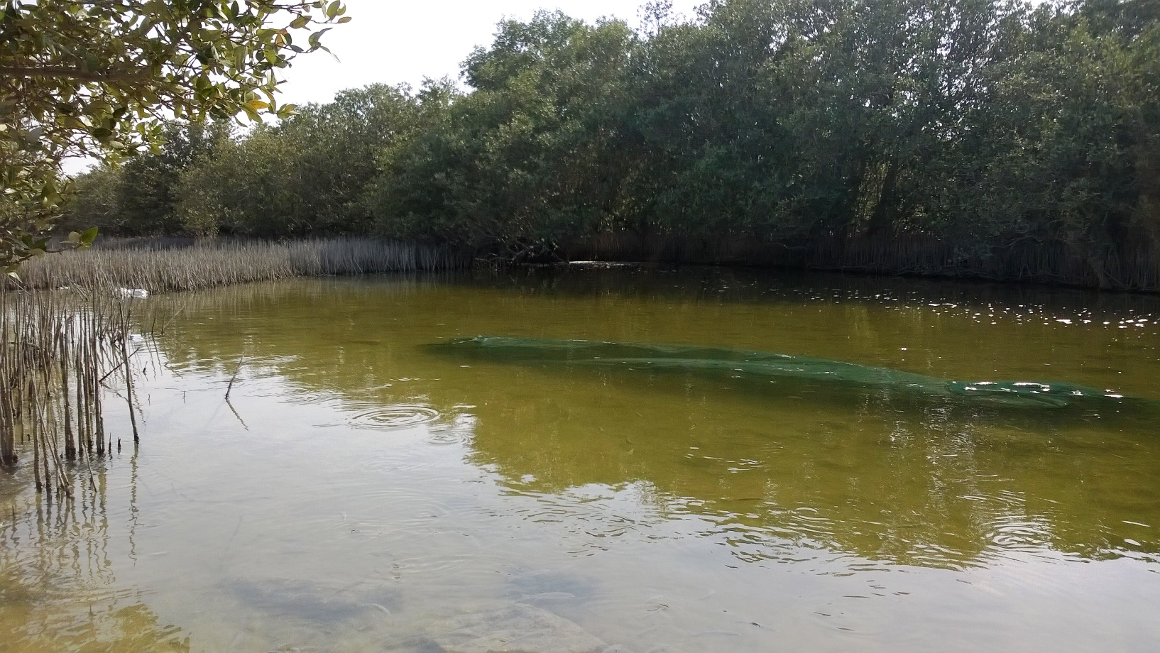 Al khore Mangrove forest (Purpule Island)